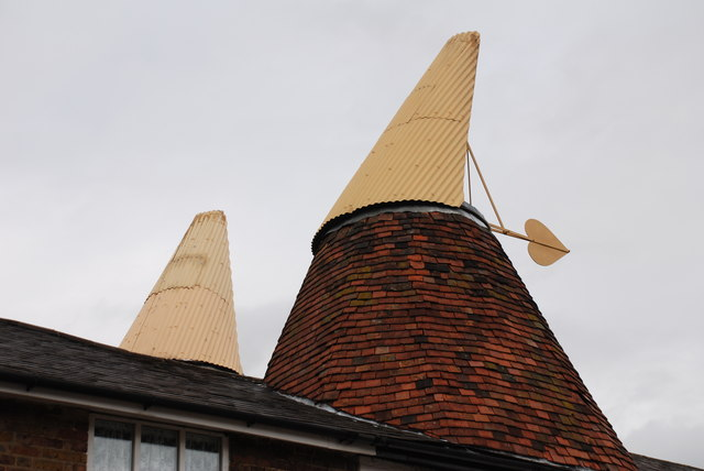 Maltings Cowl, Ware, Hertfordshire, England. One of many redundant Maltings cowls that can be seen in Ware. This one belonging to a renovated Maltings which is now The Ware Art Centre.